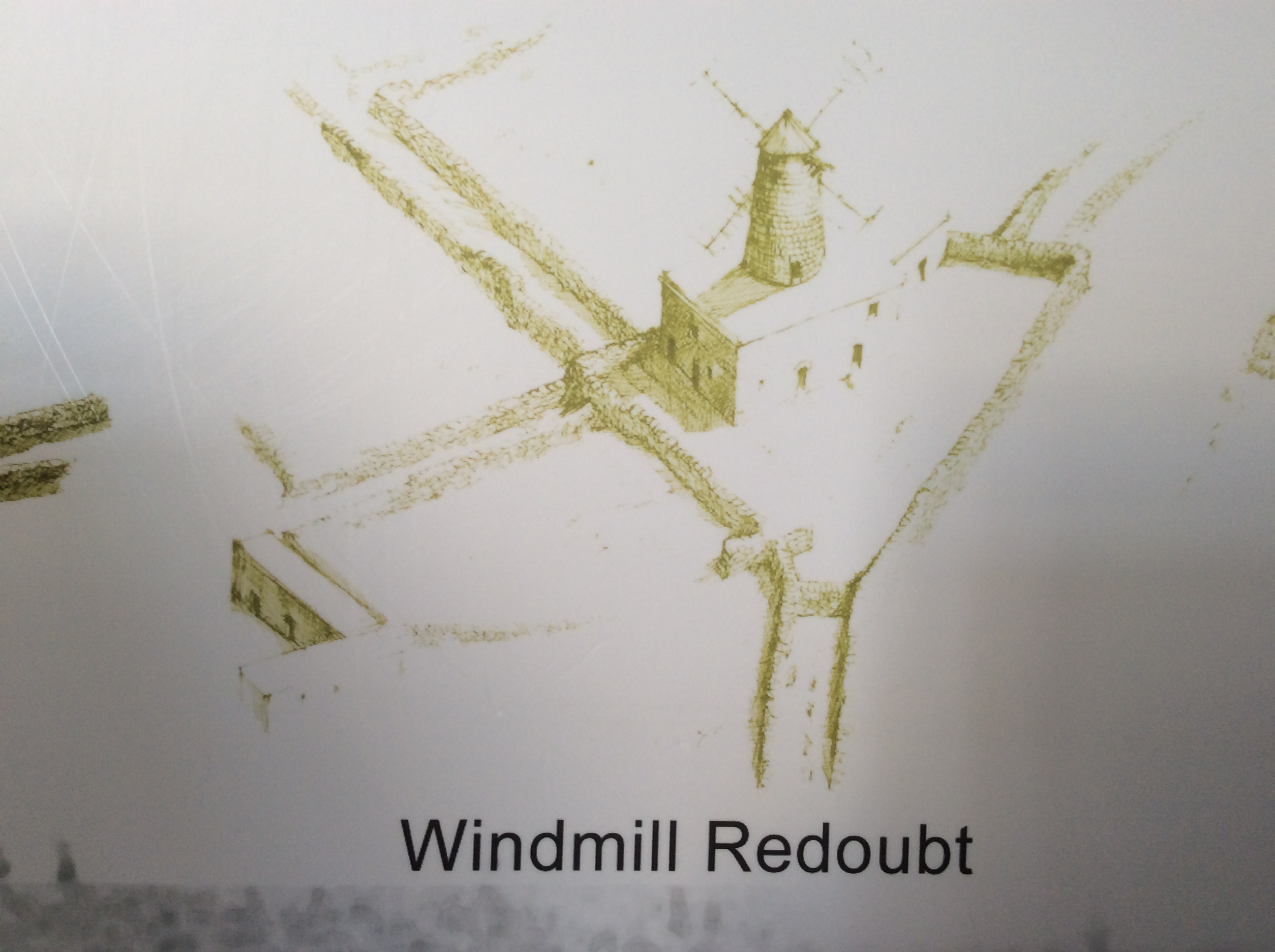 Valletta